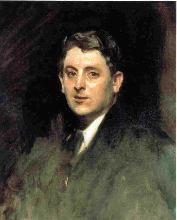 Julian Alden Weir John Singer Sargent -- American painter 1890 Private collection Oil on canvas 64.8 x 54.6 cm (25 1/2 x 21 1/2 in.) Smithsonian's SIRIS online database, no. 81690448. Jpg: Friend of the JSS Gallery